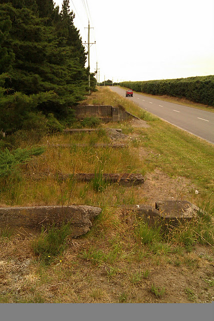 Hatfield ford bridge abutments, Canterbury region, New Zealand.